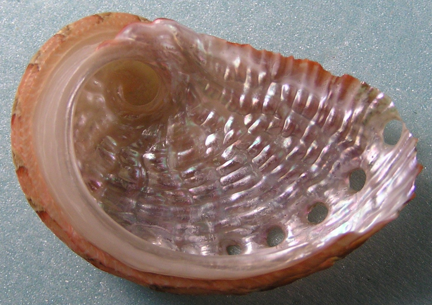 Haliotis squamosa Gray, 1826 (synonym: Haliotis crebrisculpta); family Haliotidae; Queensland, Australia